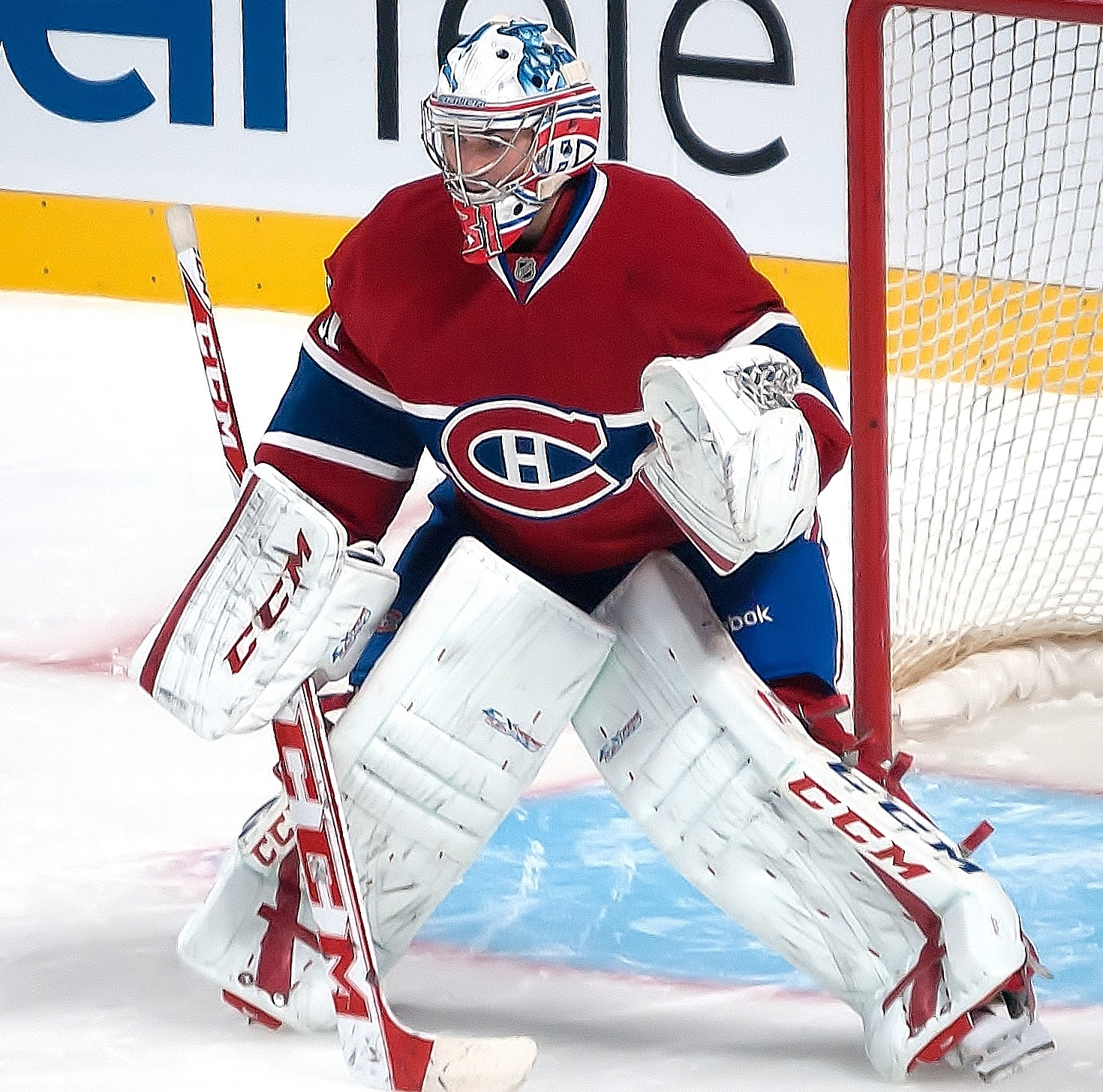 Montreal Canadiens goaltender Carey Price during a practice with his team.